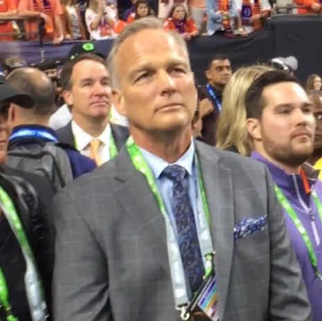 Mark Richt, ESPN commentator, at the 2020 College Football Playoff National Championship in the Mercedes-Benz Superdome in New Orleans.